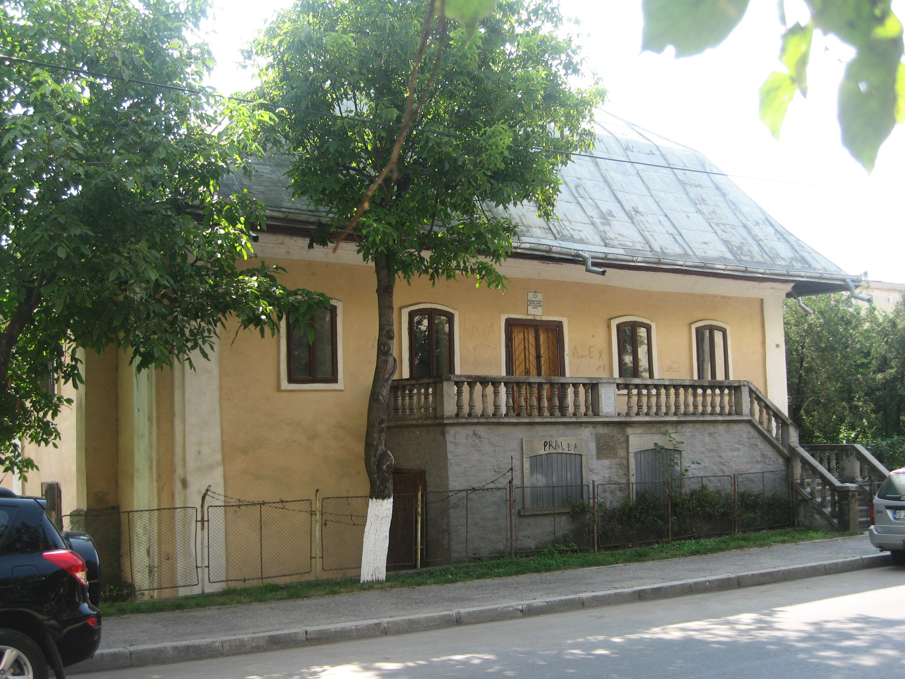 Sinagoga Mare din Harlau